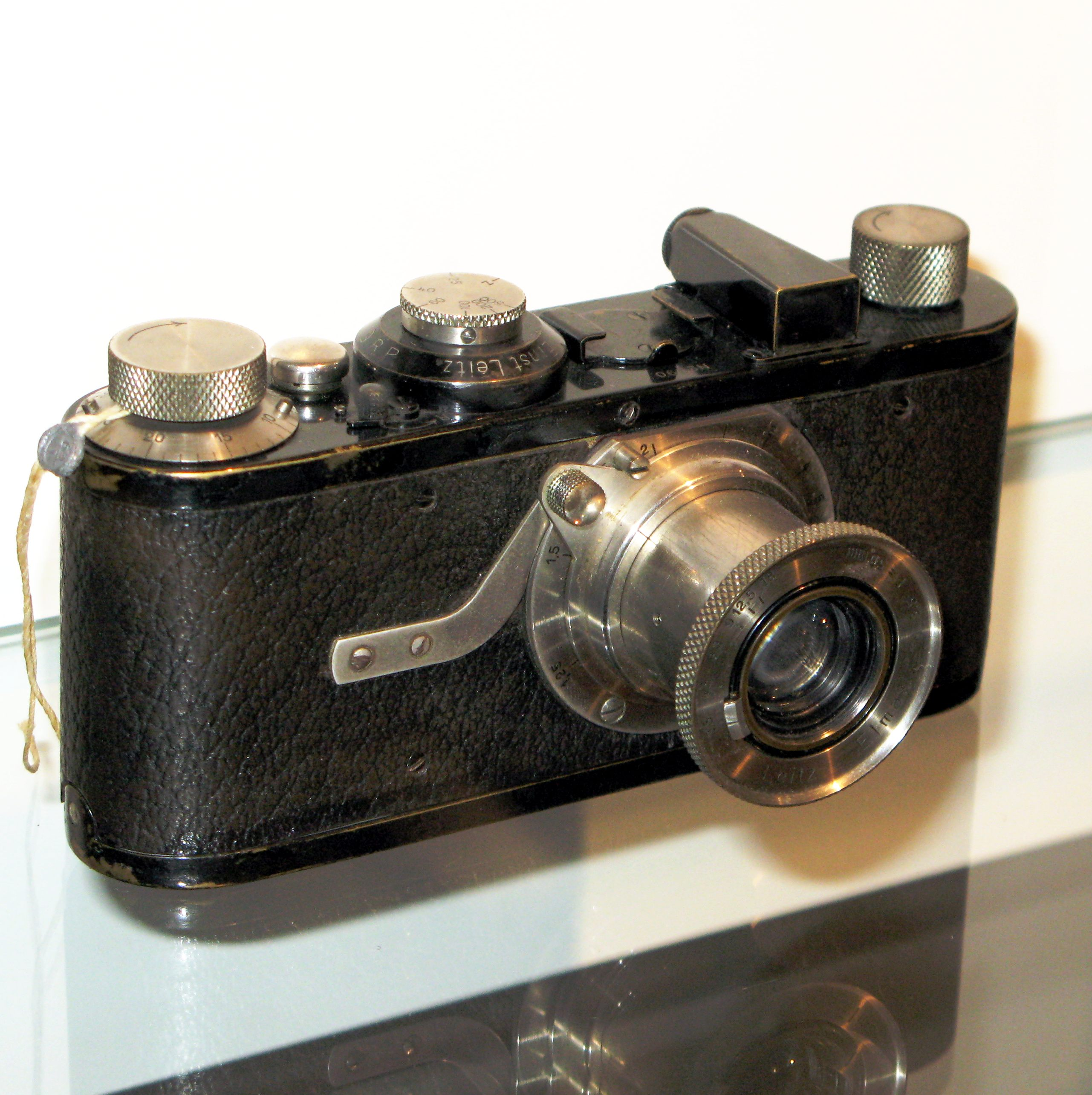 Leica I on display at Vevey photography museum